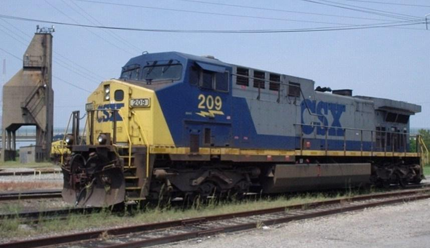 Photo by William J. Grimes Licensing This image is watermarked to give credit to the photographer, just as an artist signs their work!